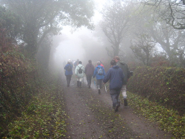 Minor road at Lower Tremenheere Carrick U3A walking group on what was supposed to be a scenic walk with wonderful views of Mount's Bay!